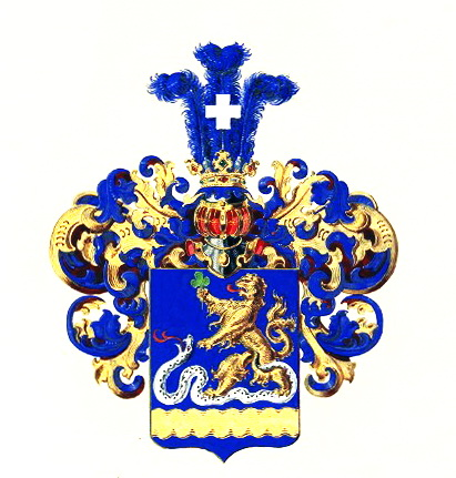 Coat of Arms of family Iordanov